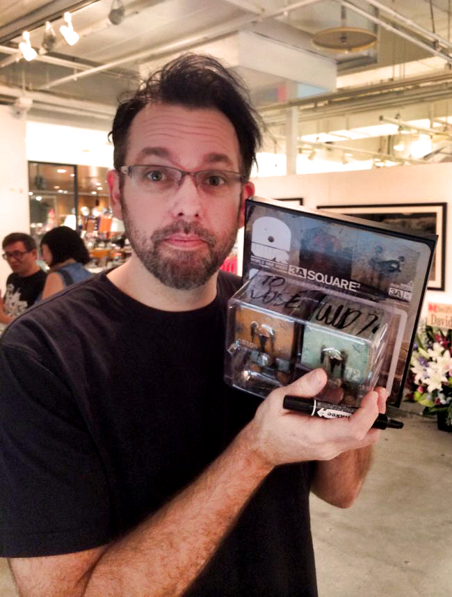 Australian illustrator and designer Ashley Wood. Taken at the 2014 "Let's Grow Old Together" art exibition, Tokyo, Japan.